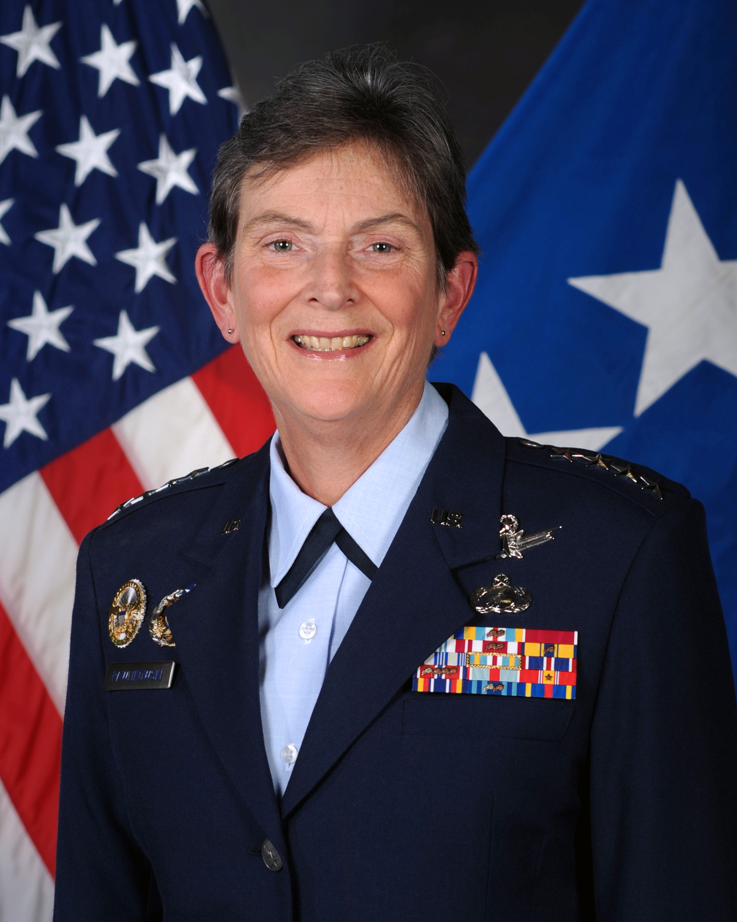 General Ellen M. Pawlikowski, USAFCommander, U.S. Air Force Material Command